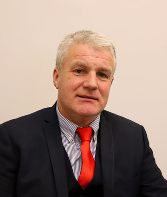 Irish politician Johnny Guirke of Sinn Féin, taken in 2020.